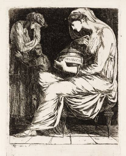 Photograph of Agrippina with the Ashes of Germanicus , circa 1773. Etching on paper, by Alexander Runciman. In the public domain.